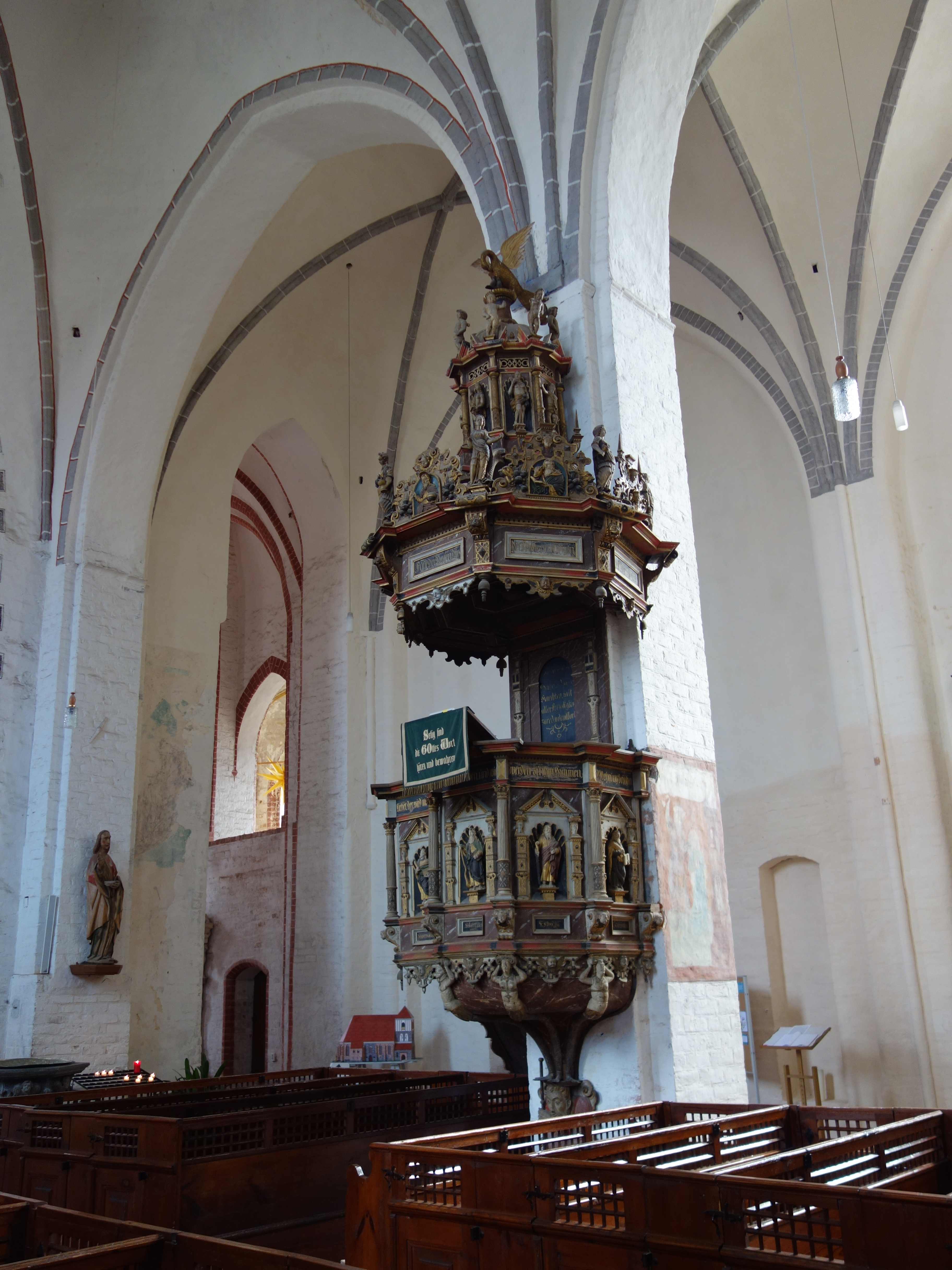 Pulpit of church St. Peter and Paul, Wusterhausen municipality, Ostprignitz-Ruppin district, Brandenburg state, Germany